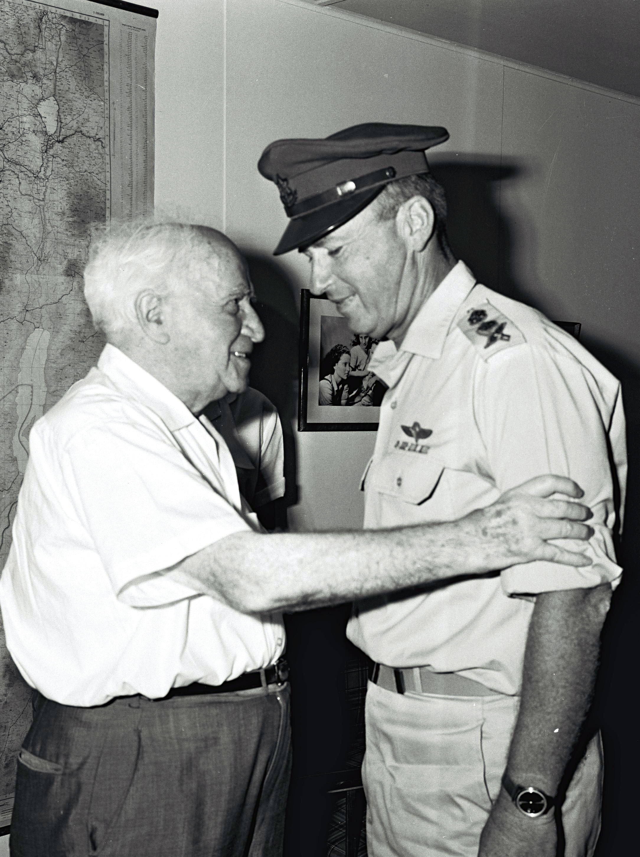 MR. DAVID BEN GURION RECEIVING THE CHIEF OF STAFF YITZHAK RABIN WHO CAME TO CONGRATULATE HIM ON HIS 80TH BIRTHDAY AT HIS HOME IN SDEH BOKER.